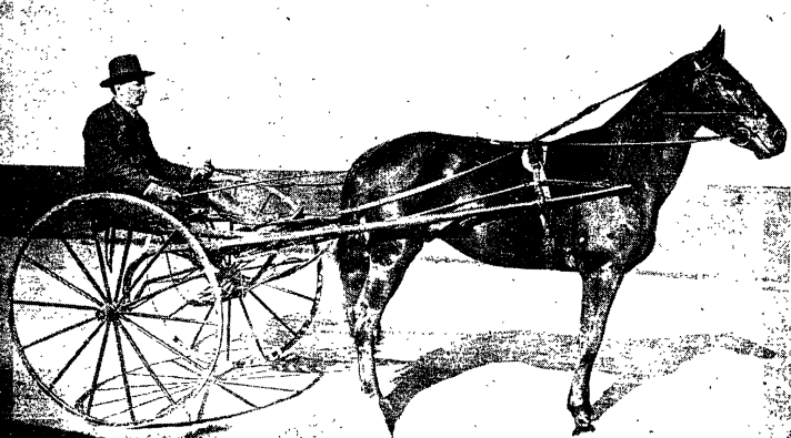 Owen McAleer, mayor of Los Angeles, California, and his driving horse, Checkers, in 1905